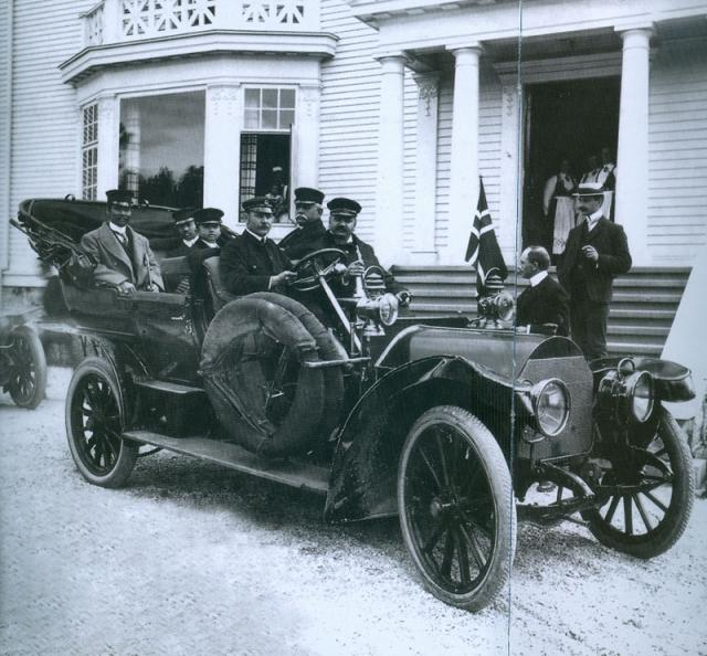 King Chulalongkorn in his royal car during his visit to Norway